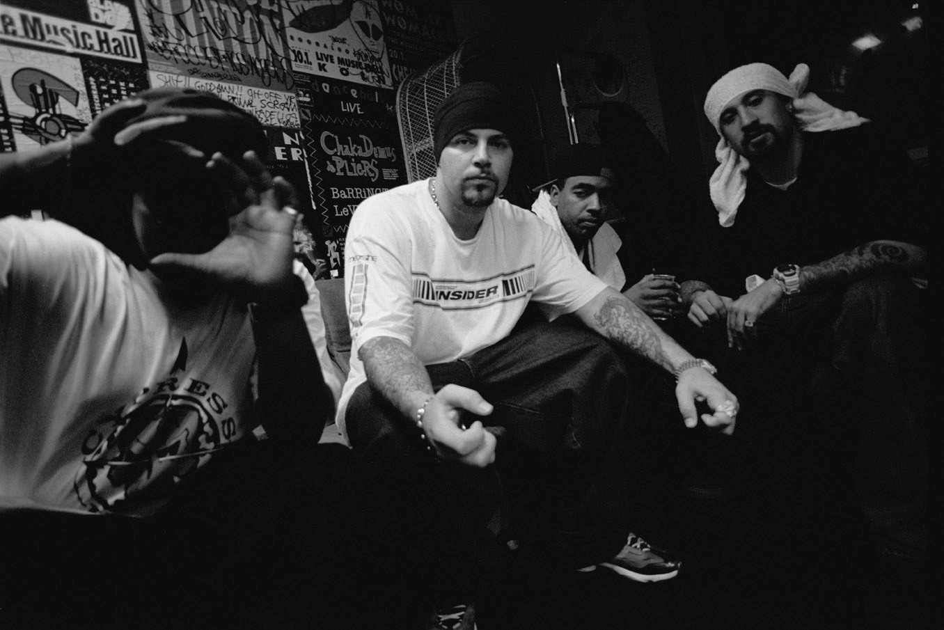 rap group Cypress Hill on tour in Bonn/Germany 1998